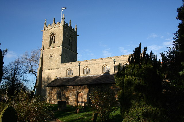 St.Andrew's church, Immingham, Lincs. Hidden amongst the modern housing, docks and oil refineries, St.Andrew's has a Perpendicular exterior and Norman & 13th century work inside.